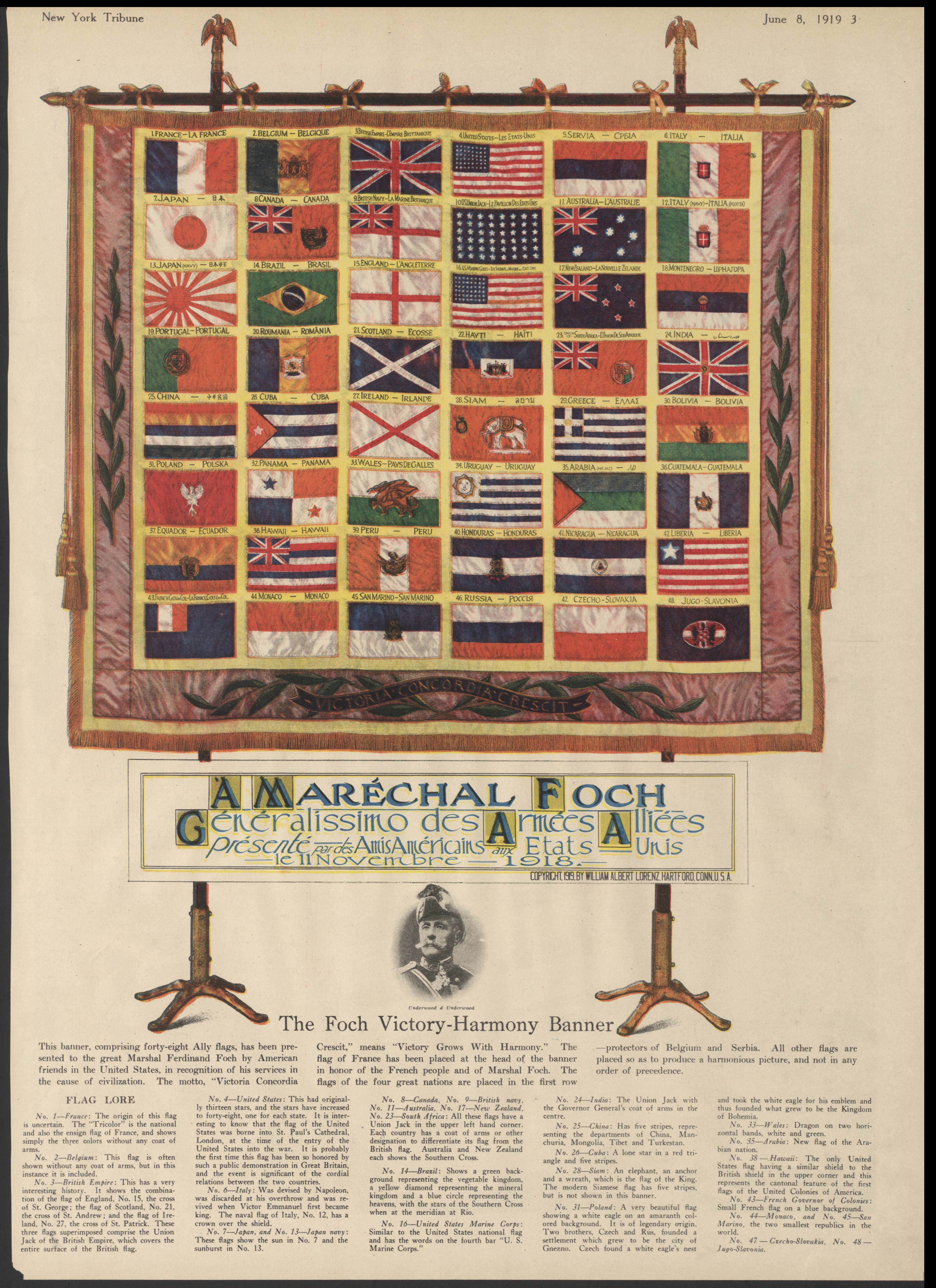 This banner, comprising forty-eight Ally flags, has been presented to the great Marshal Ferdinand Foch by American friends in the United States, in recognition of his services in the cause of civilization. The motto, “Victoria Concordia Crescit,” means “Victory Grows With Harmony.” The flag of France has been placed at the head of the banner in honor of the French people and of Marshal Foch. The flags of the four great nations are placed in the first row —protectors of Belgium and Serbia. All other flags are placed so as to produce a harmonious picture, and not in any order precedence.